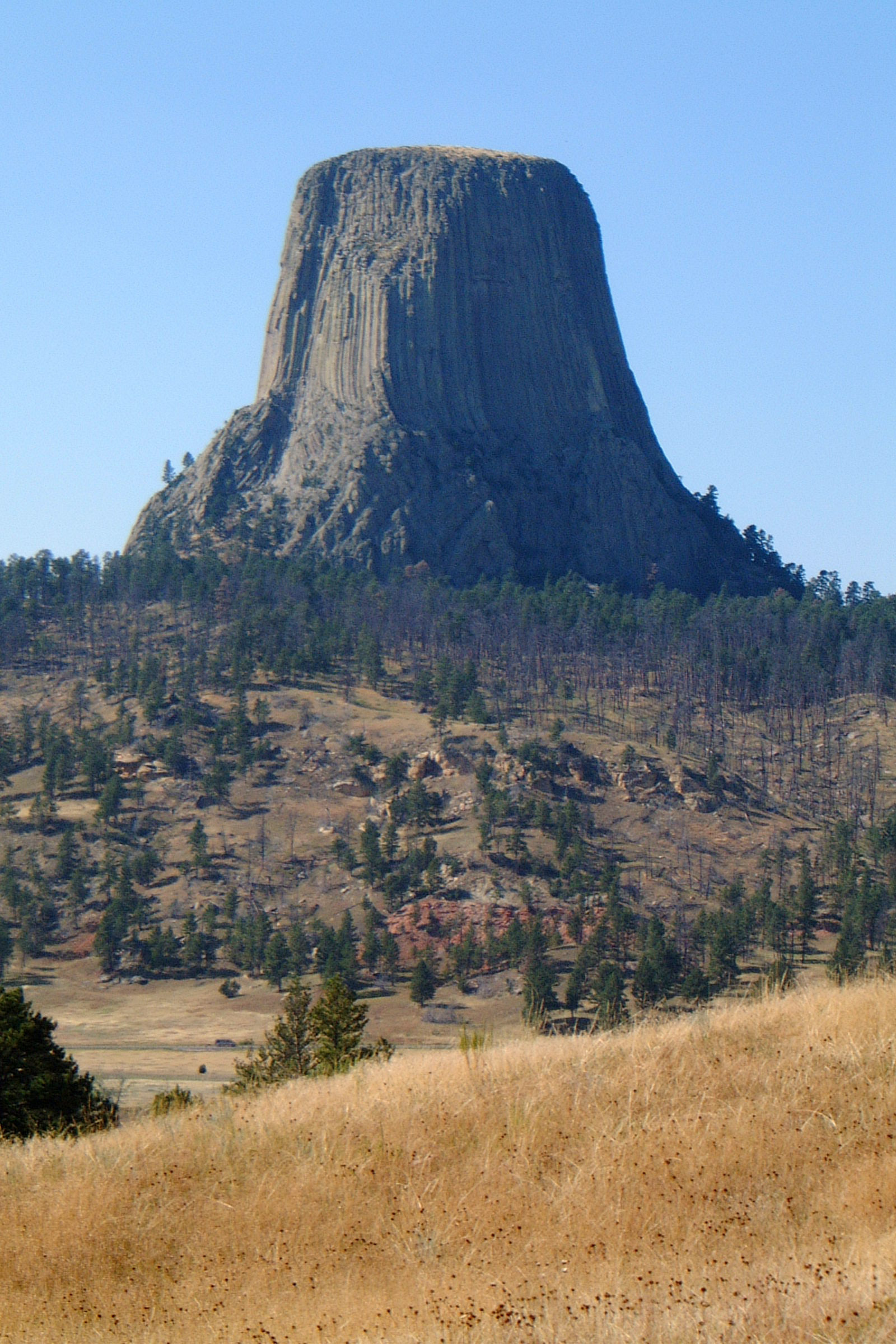 Devils Tower National Monument, Wyoming, USA. Taken by Andrew Yool on the 4 September 2003 from a position slightly east of the Monument. Cropped (2400x1800 to 2400x1600 pixels) to 6:4 in Paint Shop Pro 9.01.